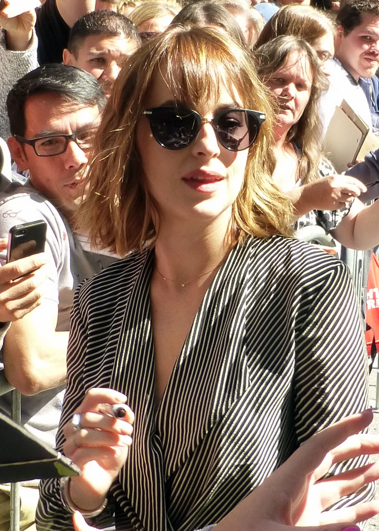 Dakota Johnson at the press conference of Black Mass, 2015 Toronto Film Festival